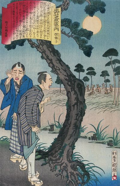 Tanuki-bayashi, from the Honjo-nana-fushigi, Woodblock print (nishiki-e); ink and color on paper